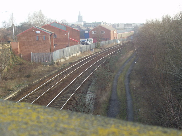 Site of Armley Moor railway station booking office, Armley, Leeds in West Yorkshire